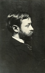 Photograph of the Chicago author Henry Blake Fuller, circa 1893